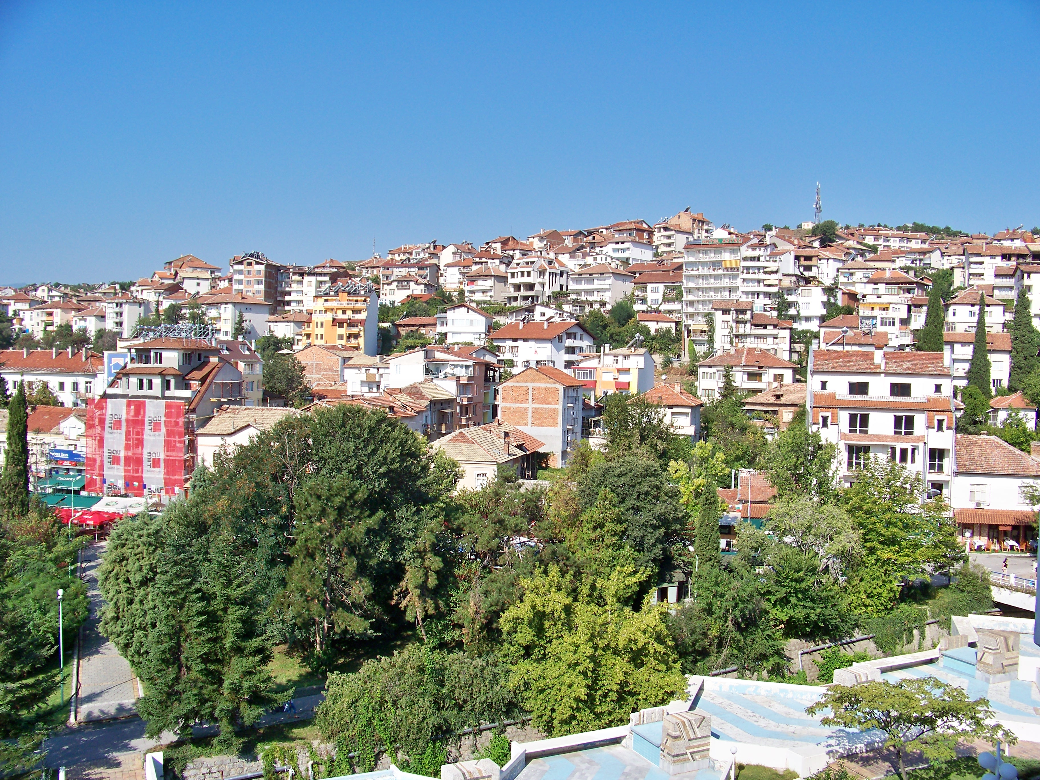 Sandanski (Bulgarian: Сандански, formerly, until 1949 Свети Врач, Sveti Vrach) is a town and a recreation centre in south-western Bulgaria, part of Blagoevgrad Province.